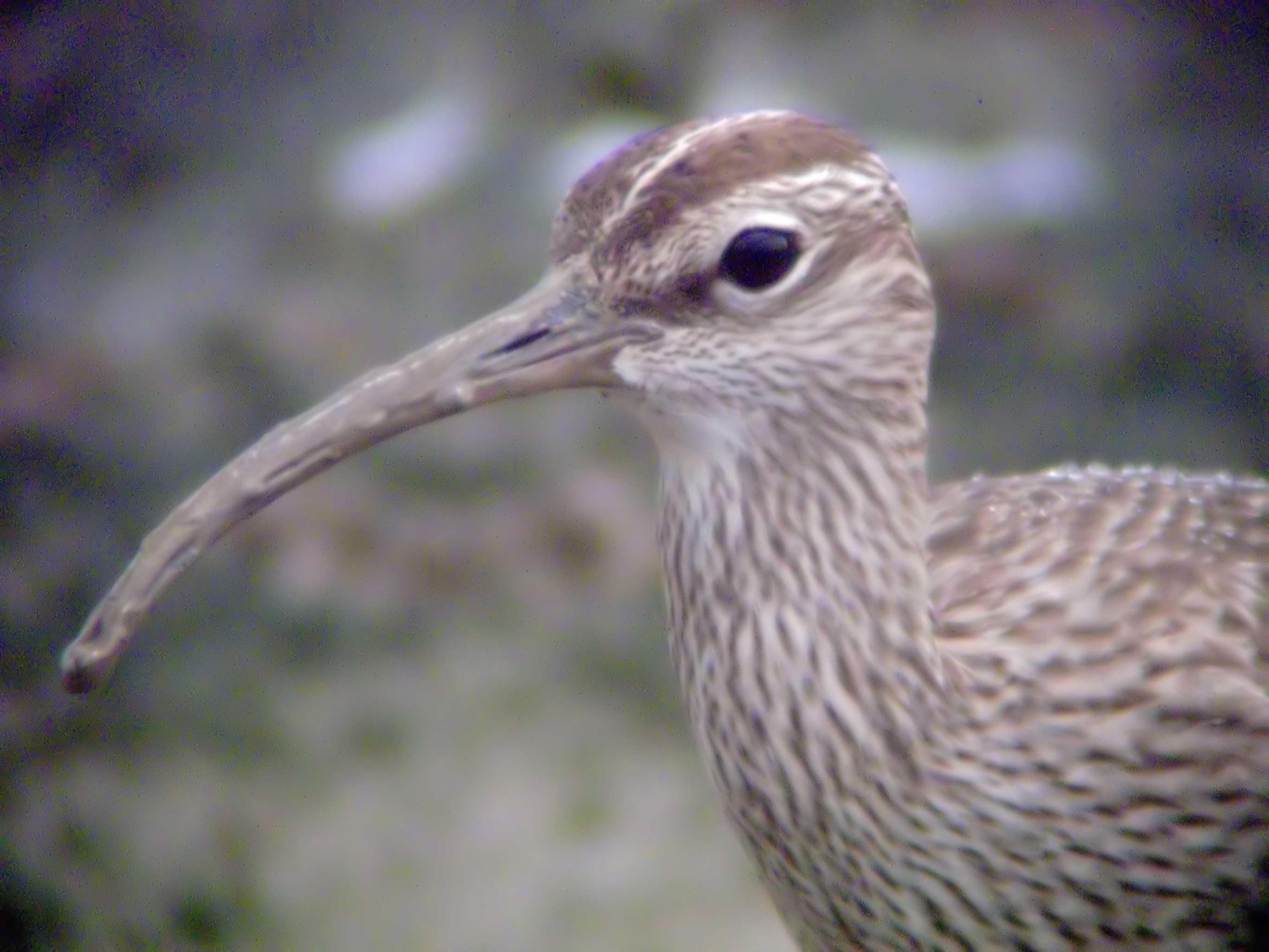 Close-up of Whimbrel Numenius phaeopus